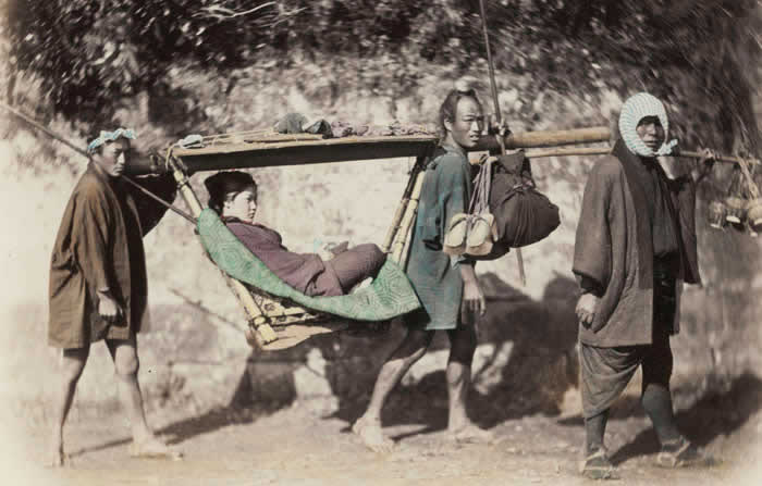 Photographie de Felice Beato (entre 1863 et 1877). Group portrait of a woman in a kago, two bearers and a man using a carrying pole, Japan (Felice Beato, between 1863 and 1877) Sujets : palanquin, sedan chair, litter, kago